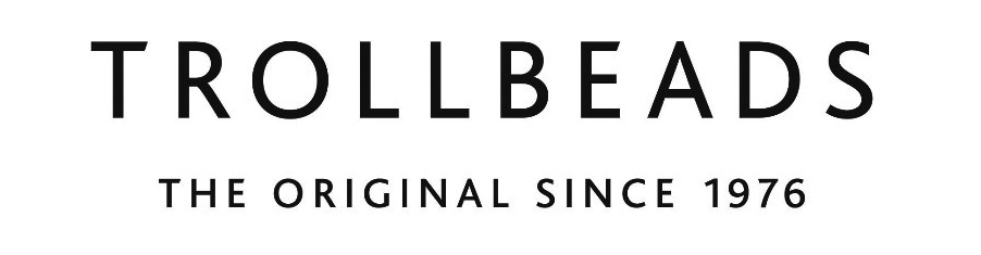 trollbeads logo